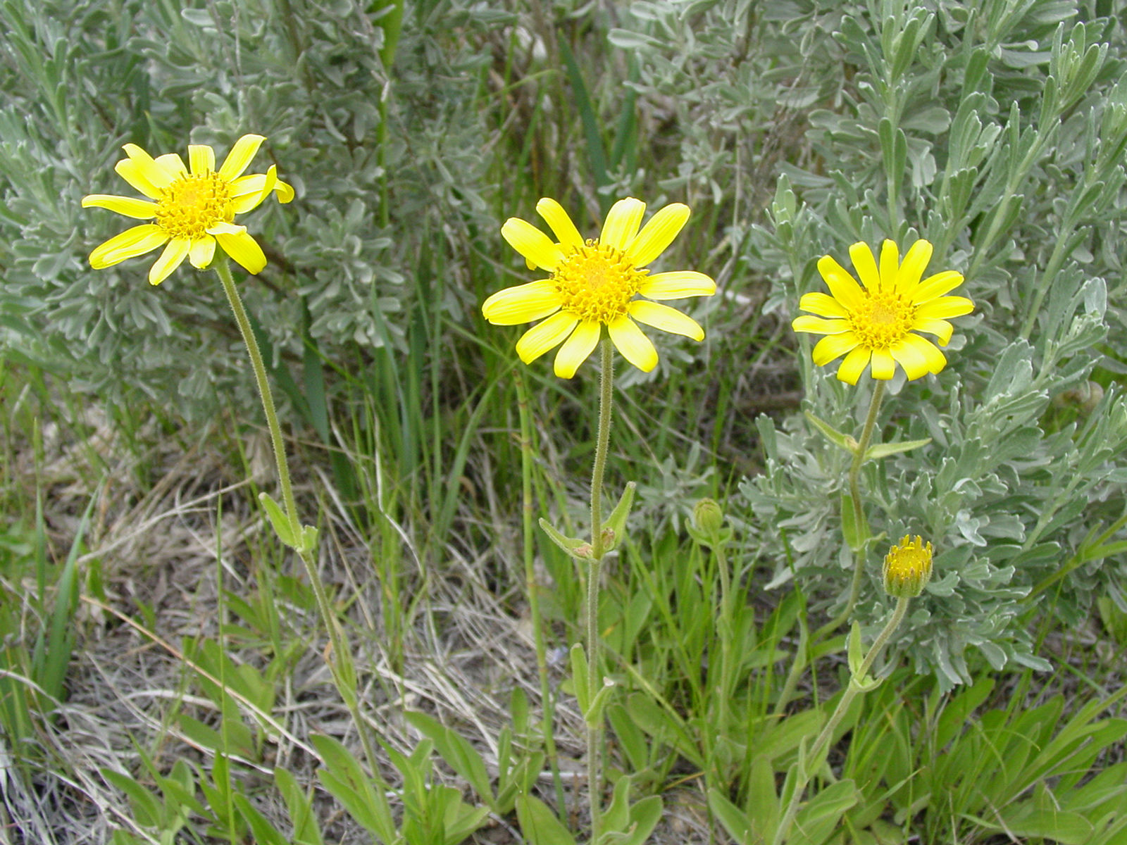 Arnica sororia. City of Rocks National Preserve, Idaho, USA.